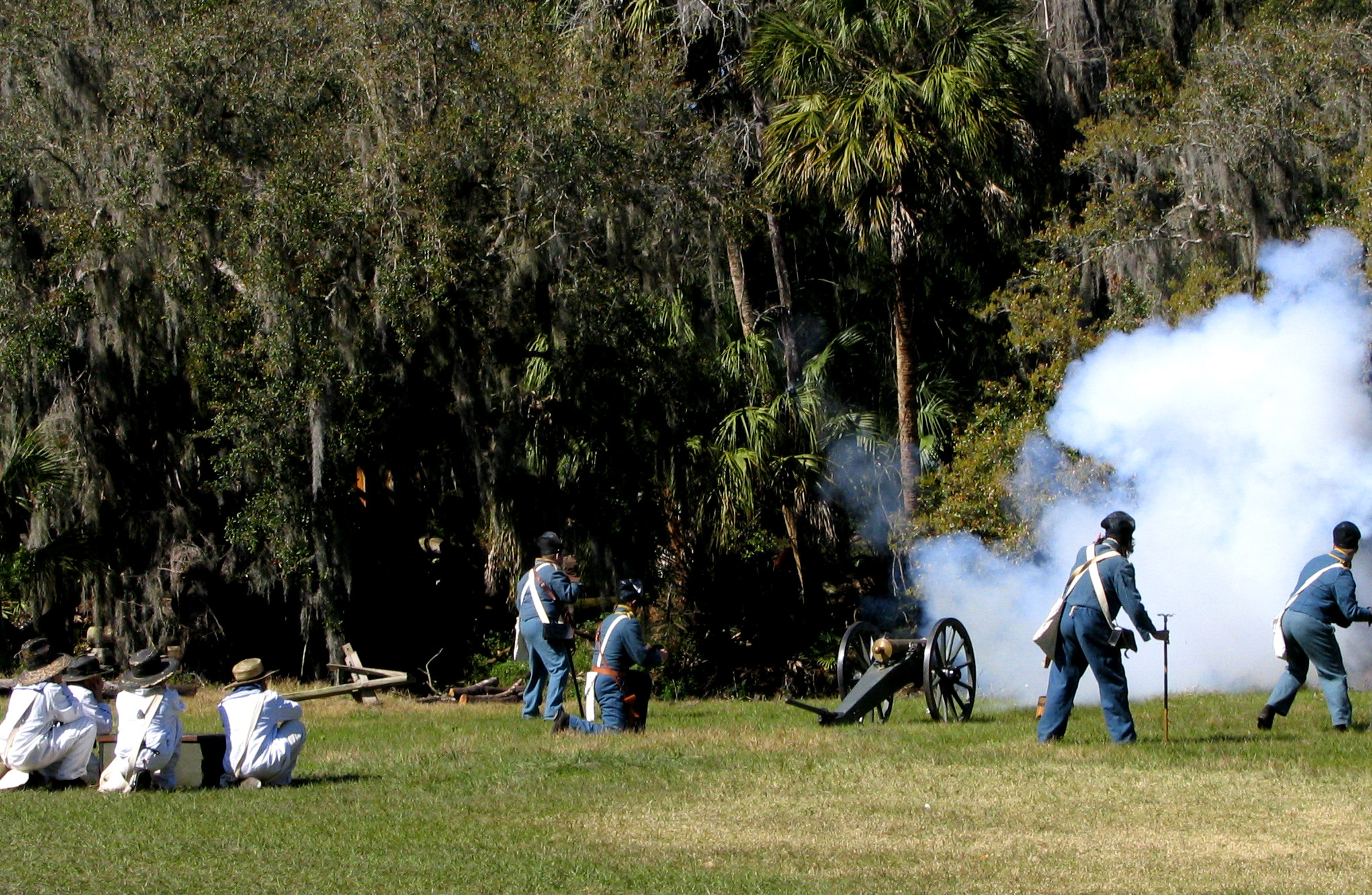 Seminole War Reenactors - Hillsborough River State Park. Taken by User:Mwanner, 17 February, 2007.